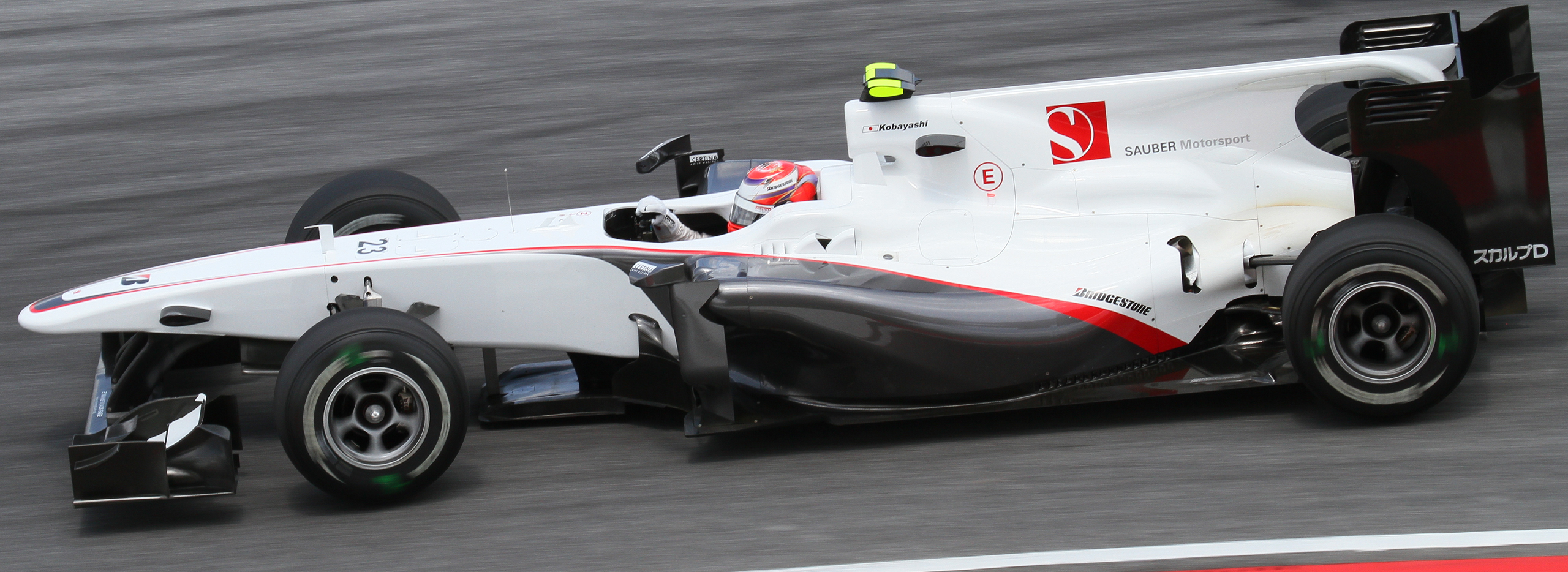 Formula One 2010 Rd.3 Malaysian GP: Kamui Kobayashi (BMW Sauber) during Friday 2nd Free Practice session.